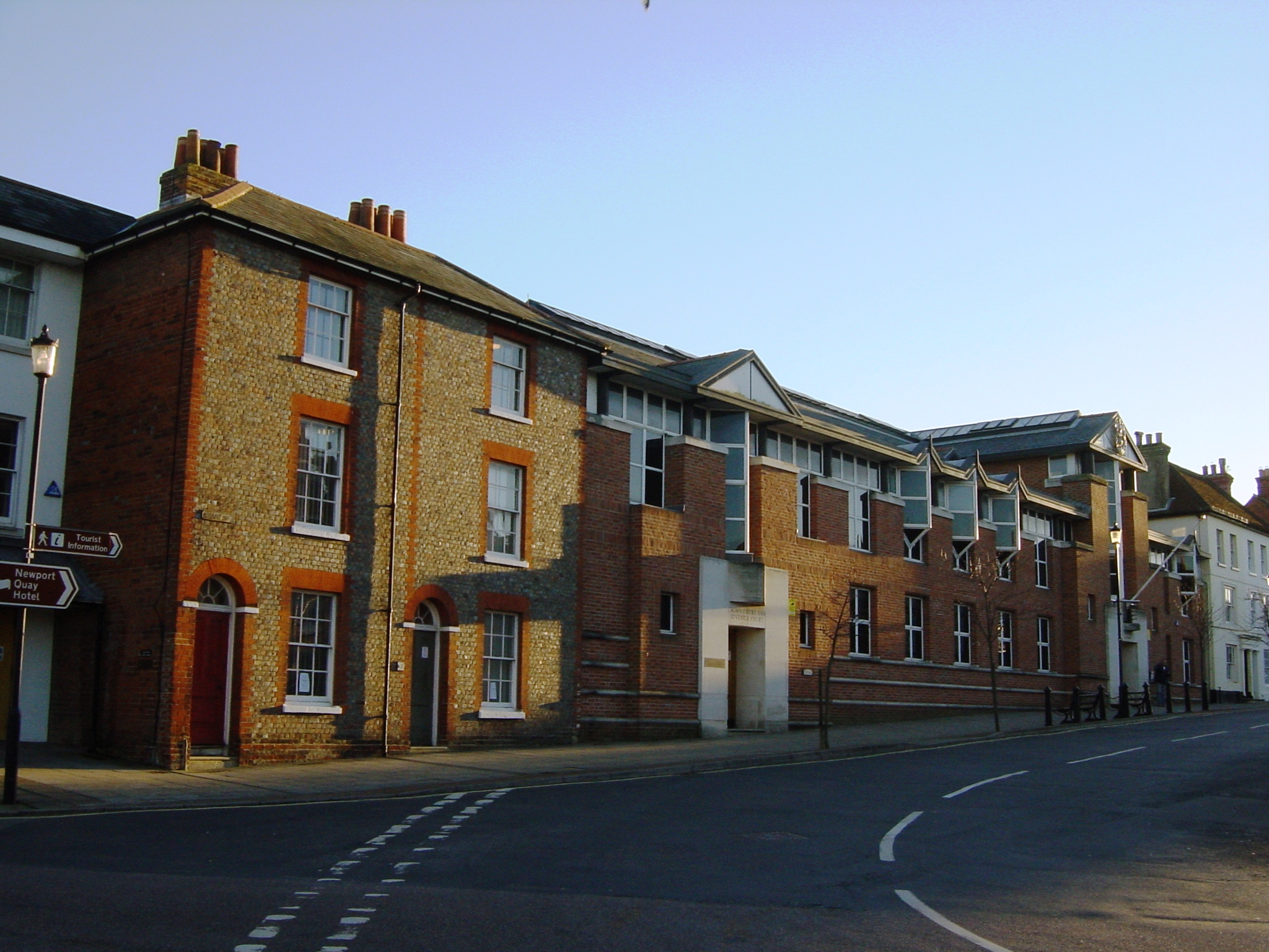 The Crown Court / Magistrates' Court at Newport, Isle of Wight. The County Court is to the left